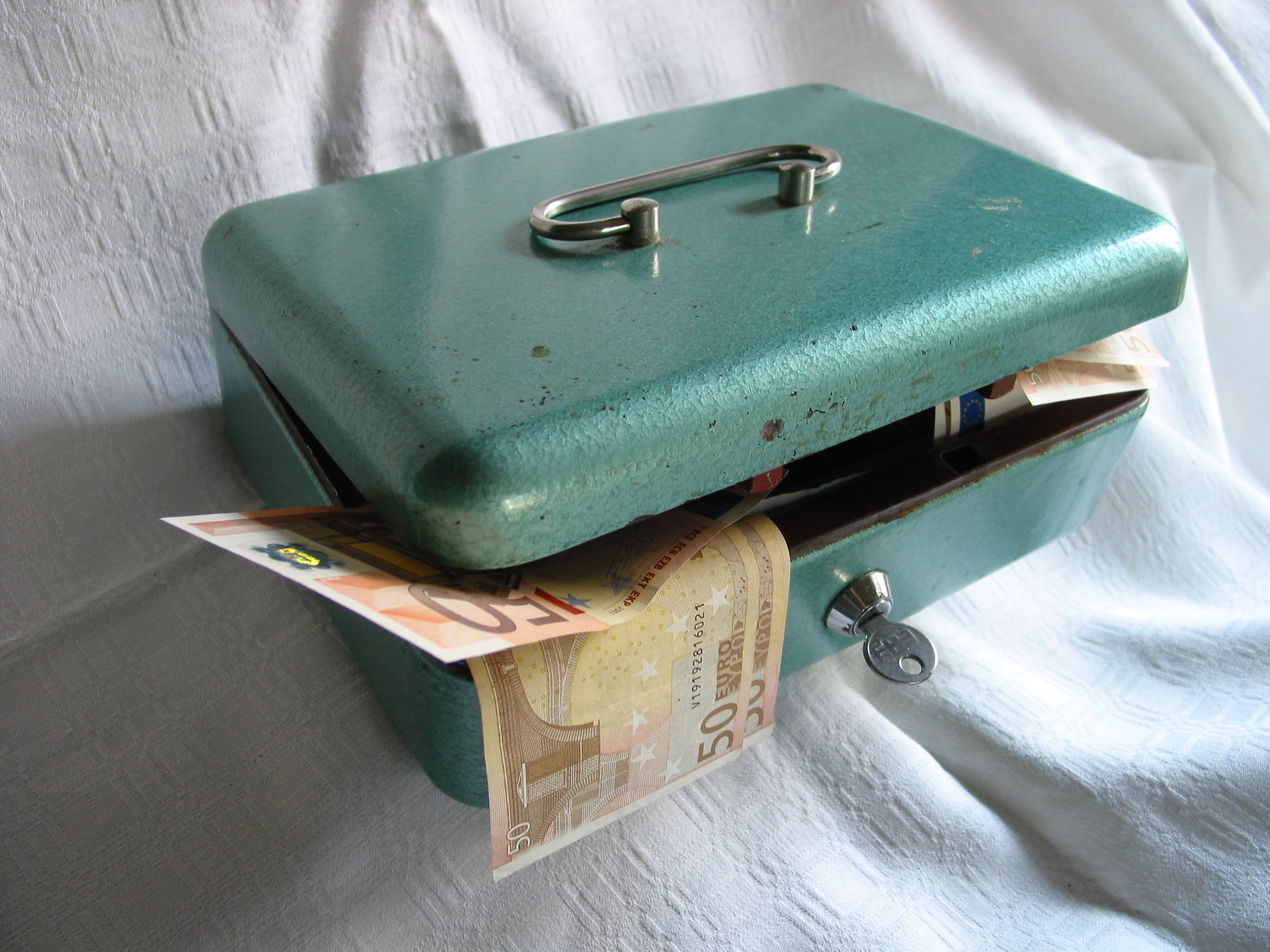 Safe, small for private use, 24,5 x 18 x 9 cm